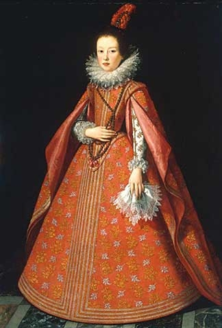 Portrait of Margherita de' Medici (1612-1679)